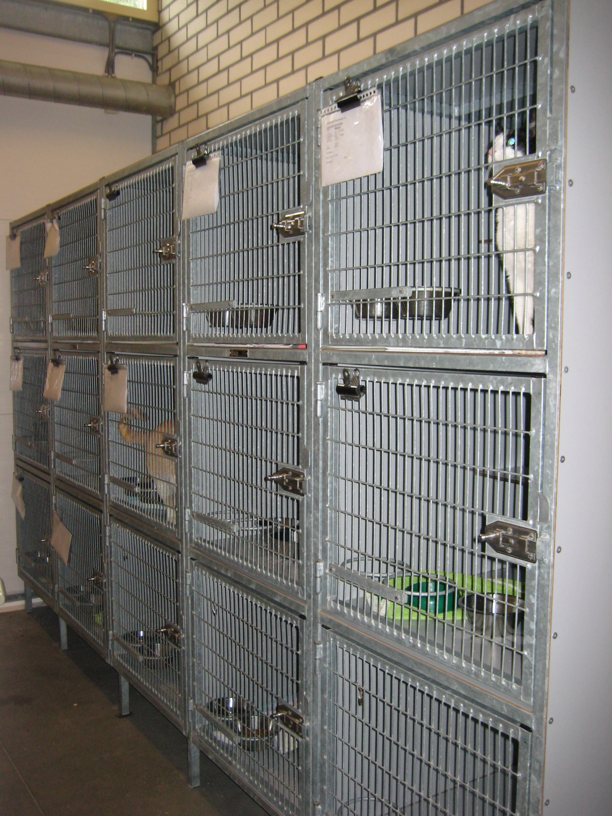 A quarantine section for cats in an animal shelter